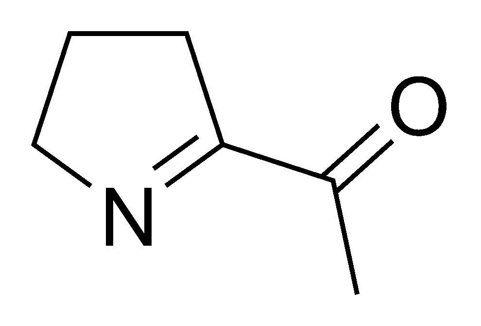 Chemical structure of 2-acetyl-1-pyrroline